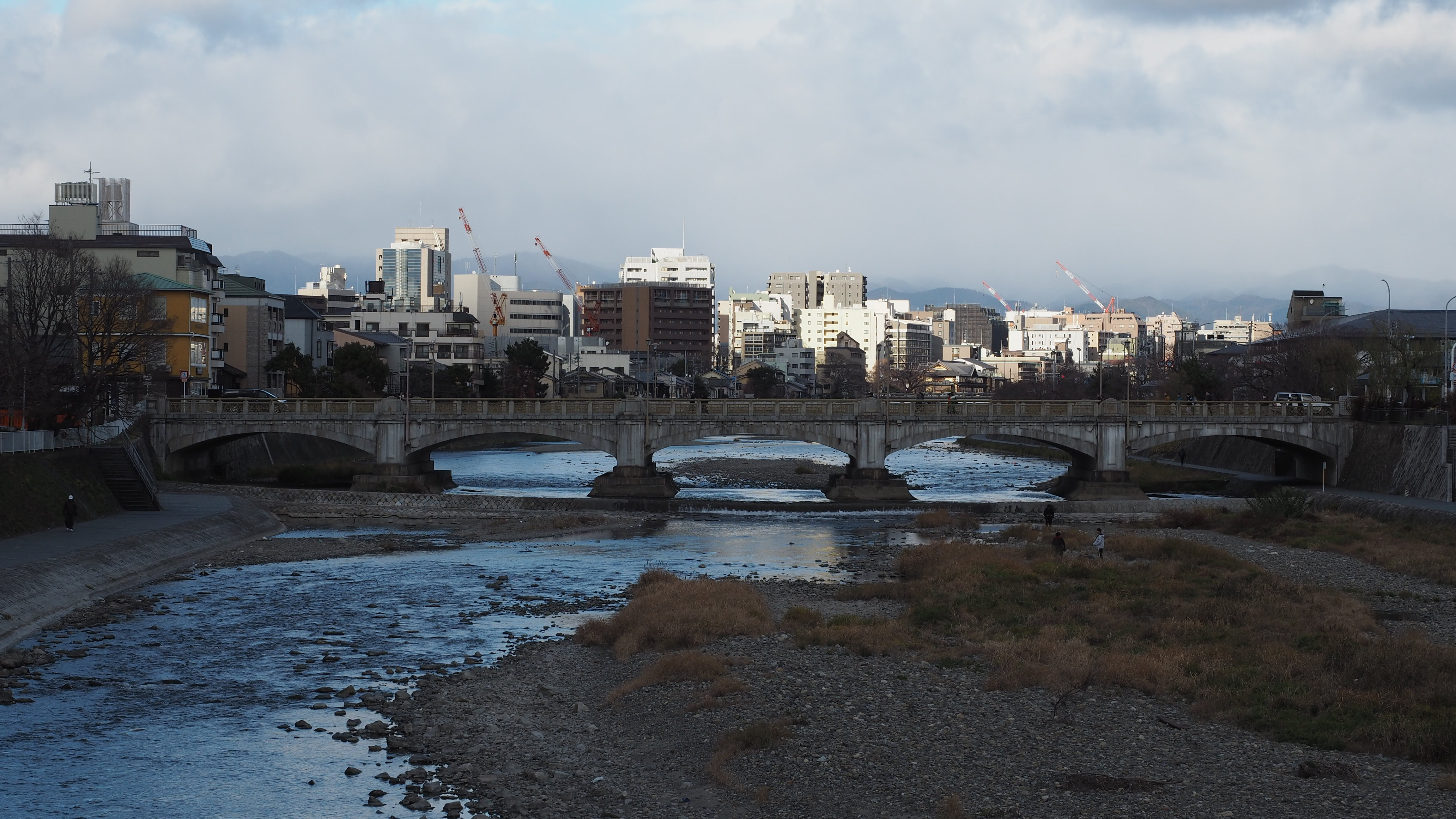 Schichijo Bridge, view from Shiokoji Bridge.